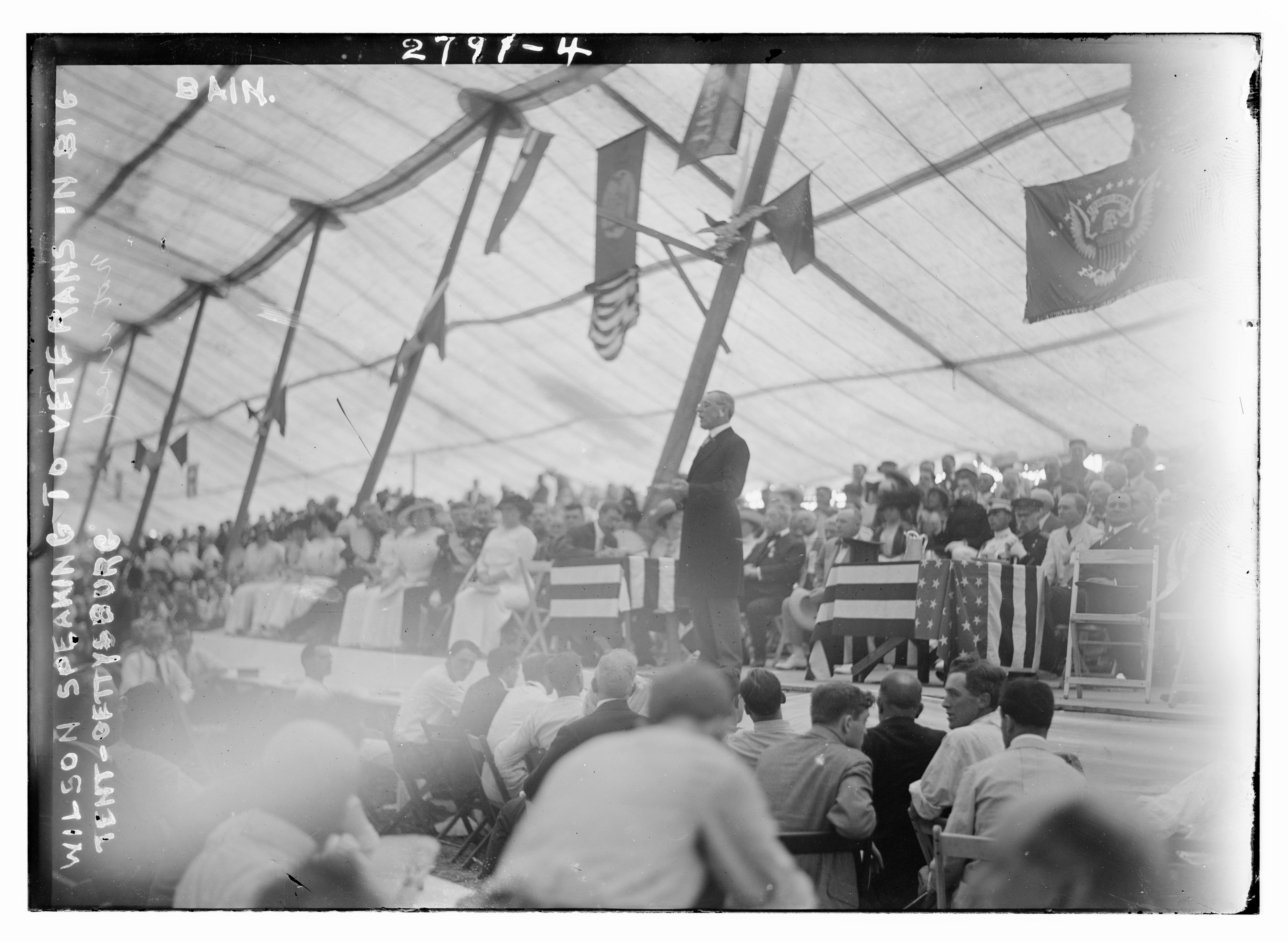 Title: Wilson speaking to Vets in big tent - Gettysburg Abstract/medium: 1 negative : glass ; 5 x 7 in. or smaller.